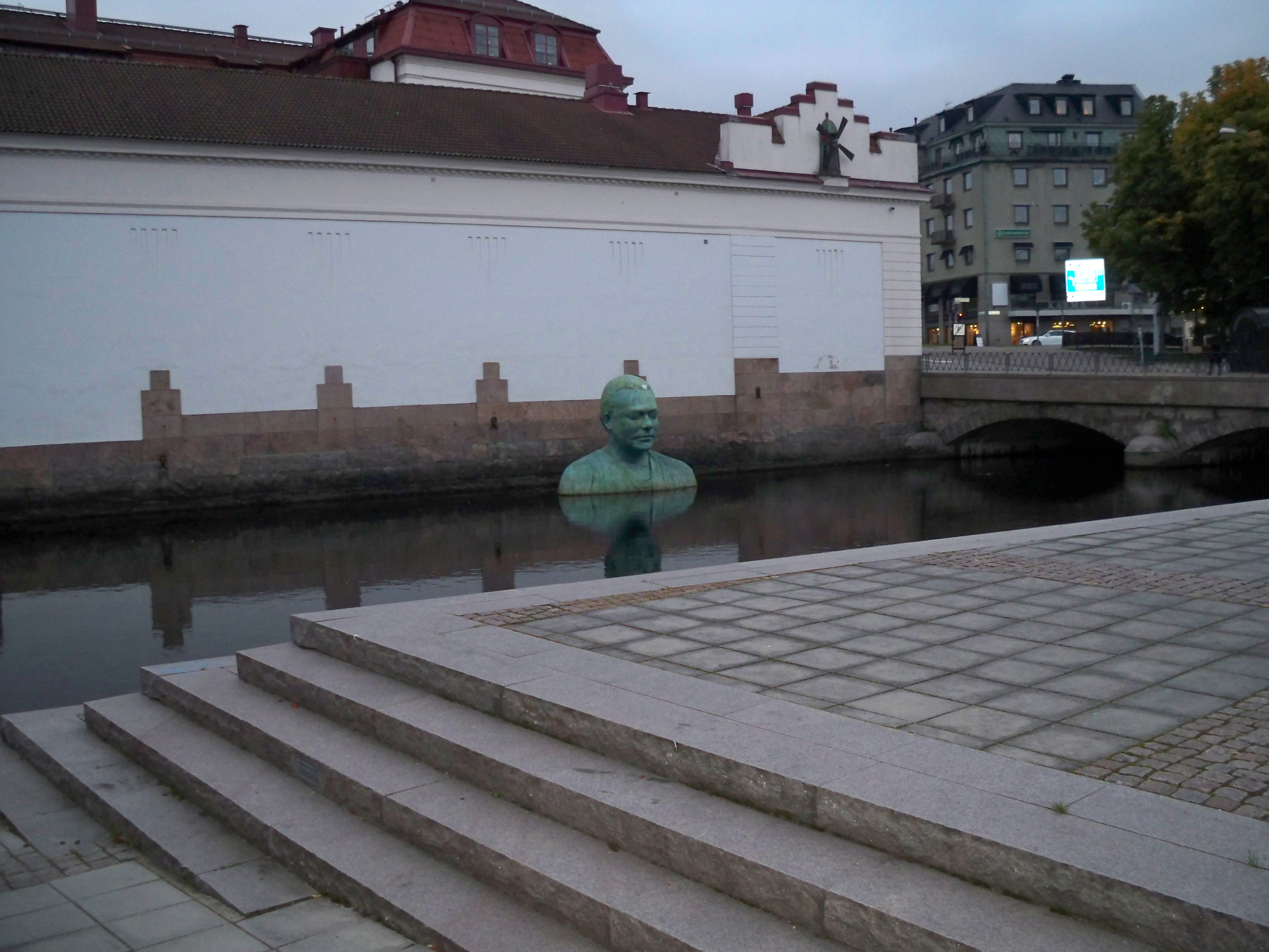 The bronze-bust Bodhi (2004) by the Swedish sculptor Fredrik Wretman in the watery and stony environment of Borås, Sweden.